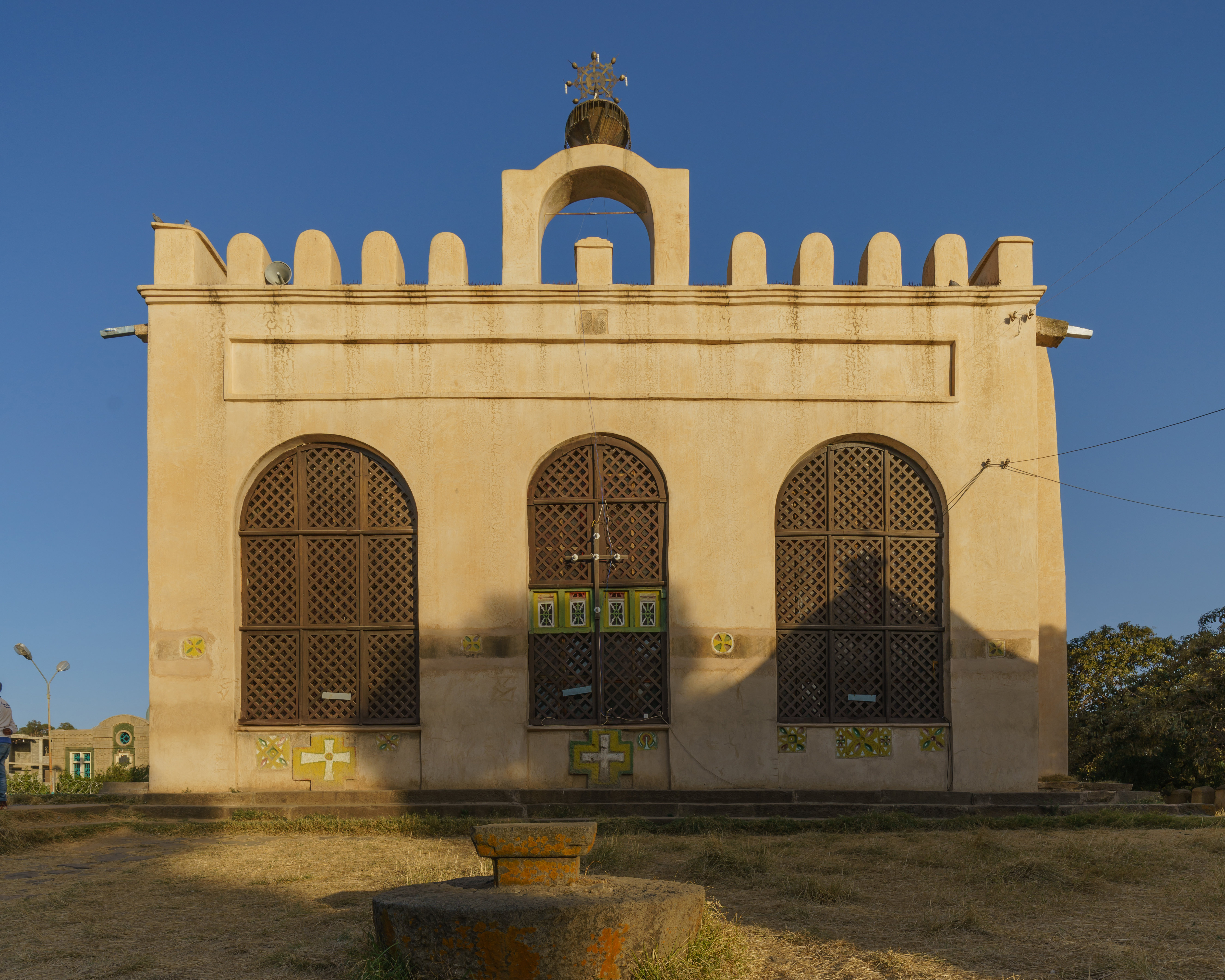 Old Church of Saint Mary of Zion in Aksum, Tigray Region, Ethiopia